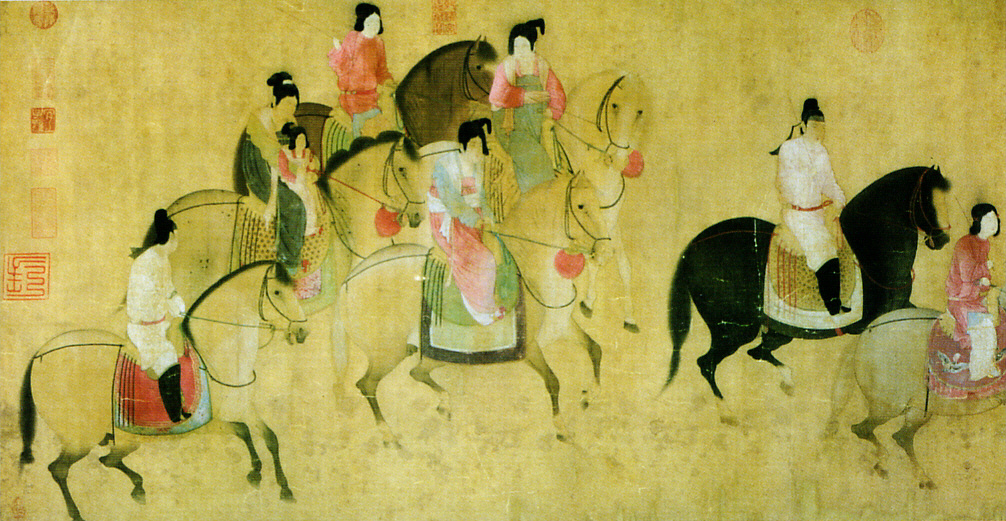 Pleasures of the Tang court